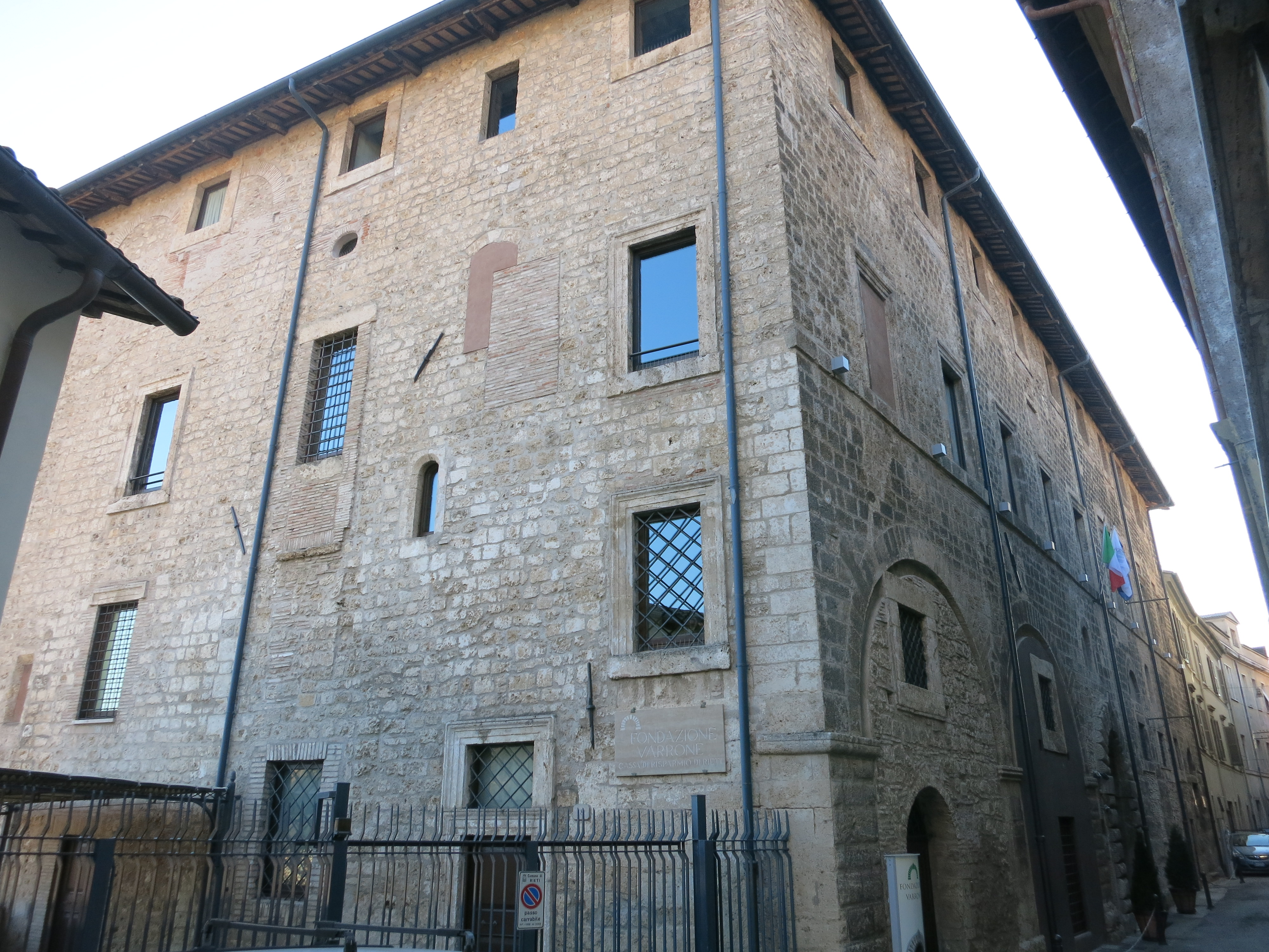 Potenziani Fabri Palace - Rieti, Lazio, Italy